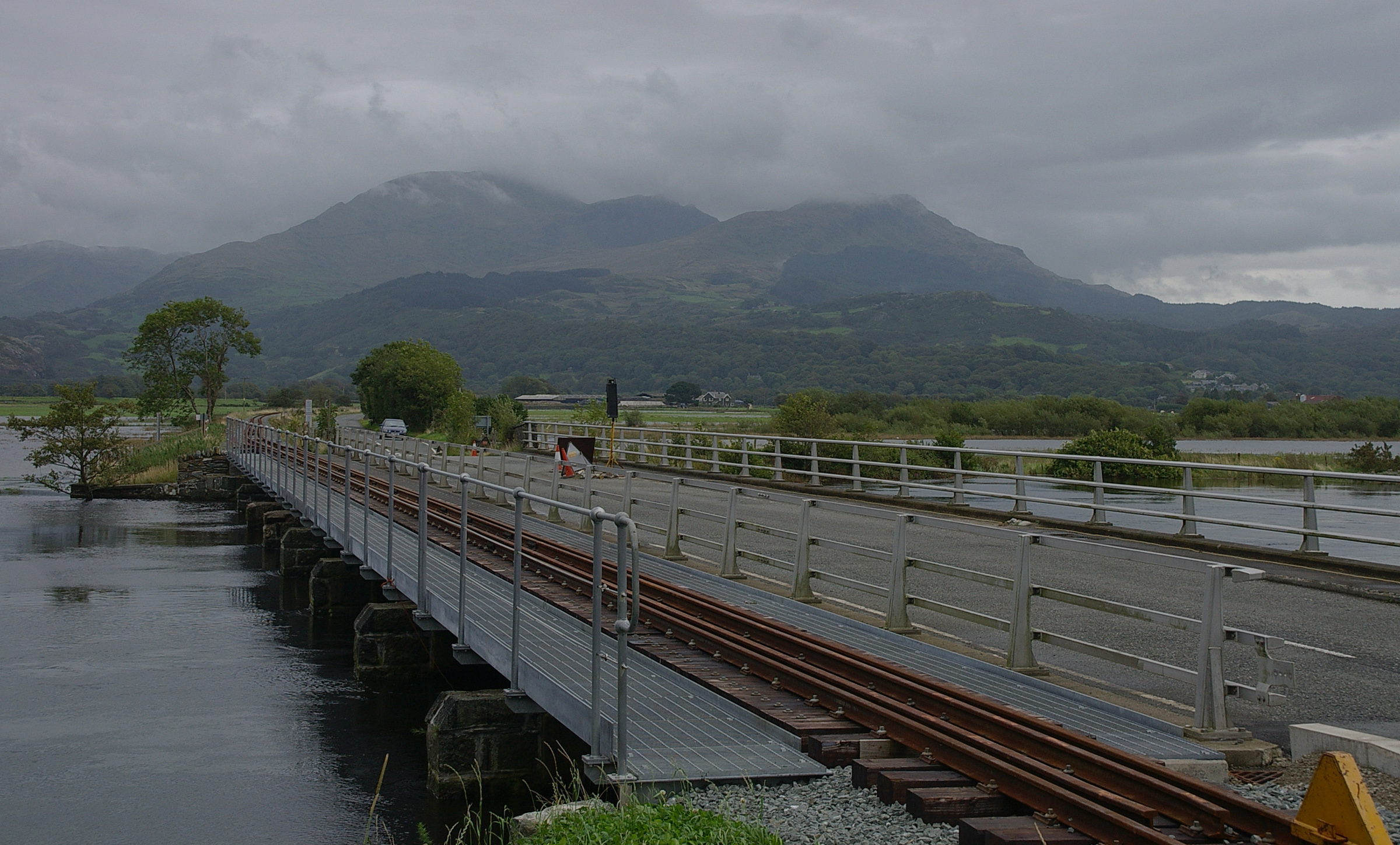 The Welsh Highland Railway's crossing over the Afron Glaslyn at Pont Croesor.